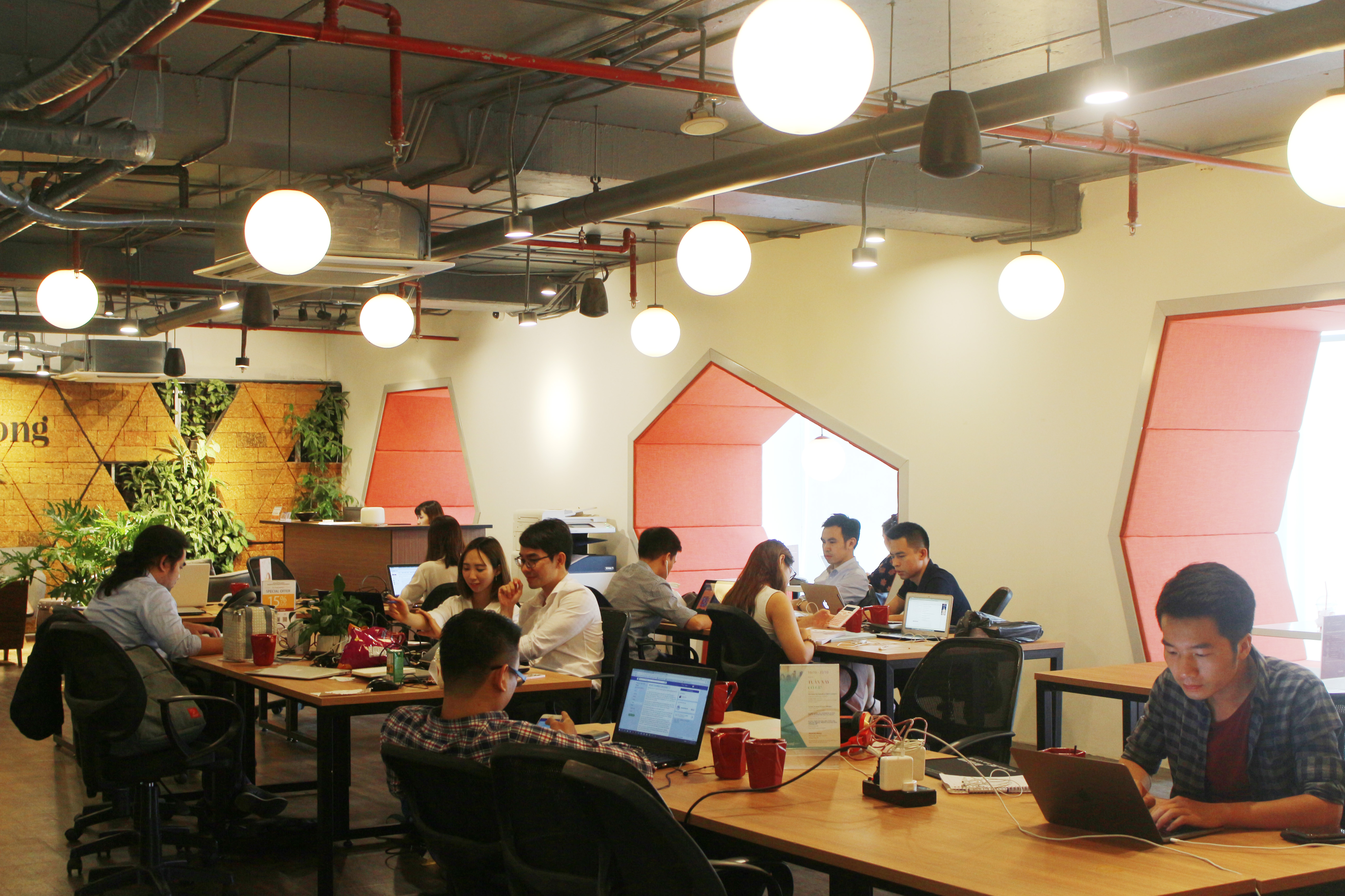 Toong's design is a blend of cultural features and modern details. An ideal space for enthusiastic entrepreneurs, freelancers or digital nomads to drop by.